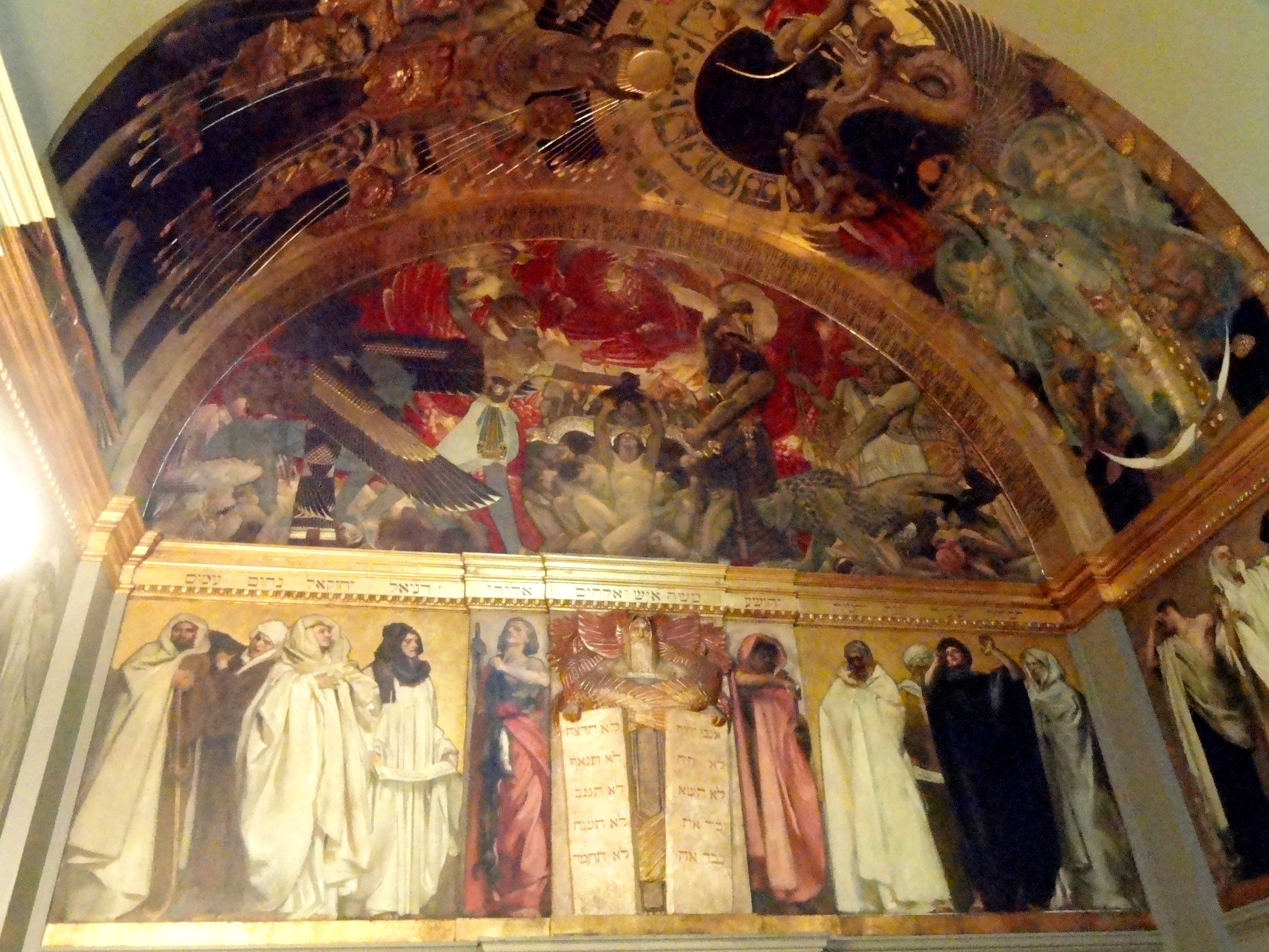 Inside Boston Public Library, McKim Building, Boston, Massachusetts, USA. This artwork is old enough so that it is in the public domain. I took this photograph and release it into the public domain.